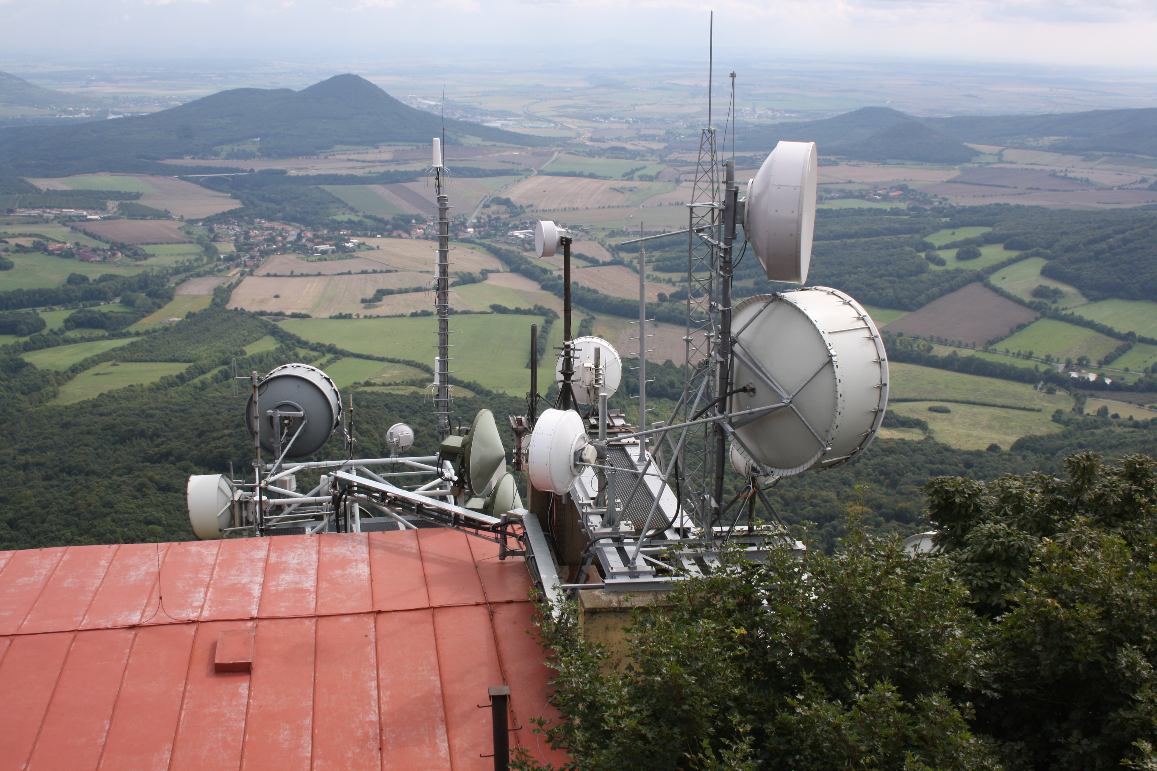 Satelites on the top of the roof on Milešovka hill (837 m), České středohoří, Czech Republic.